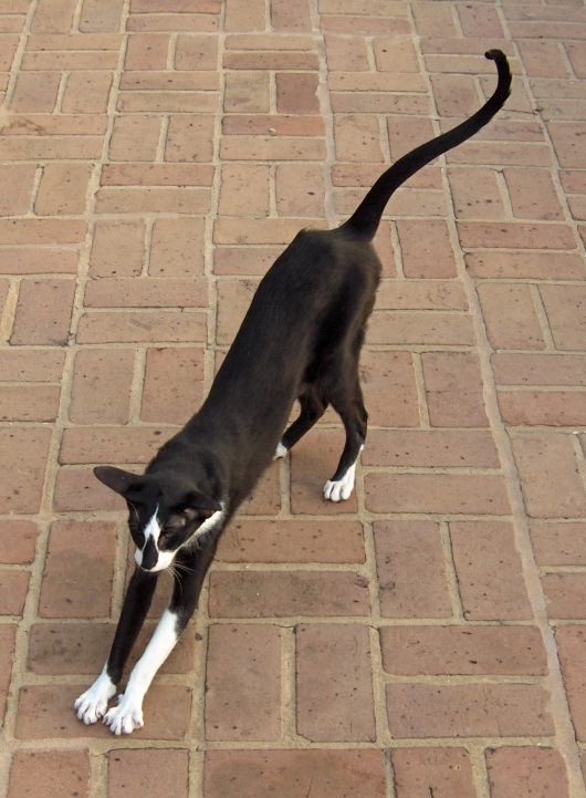 Ebony White Bicolor male Oriental Shorthair